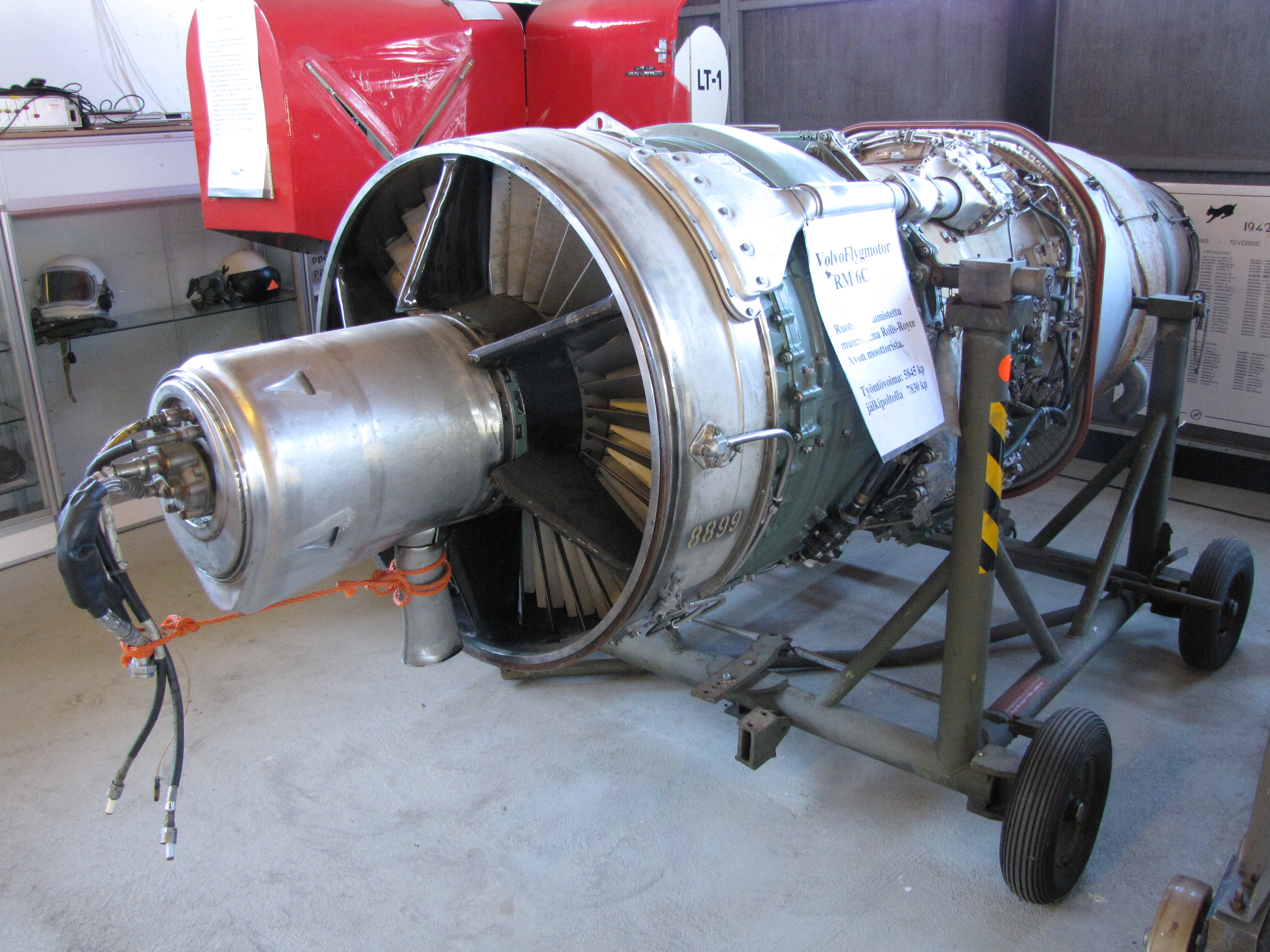 Volvo Flygmotor RM 6C turbojet (a modified Rolls-Royce Avon) from a Saab 35 Draken fighter.